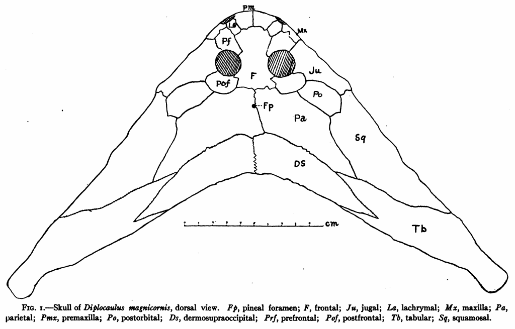 Figure 1 - Diplocaulus magnicornis, dorsal view. Fp, pineal foramen; F, frontal; Ju, jugal; La, lachrymal [sic]; Mx, maxilla; Pa, parietal; Pmx, premaxilla; Po, postorbital; Ds, dermosupraoccipital [postparietal]; Prf, prefrontal; Pof, postfrontal; Tb, tabular; Sq, squamosal.